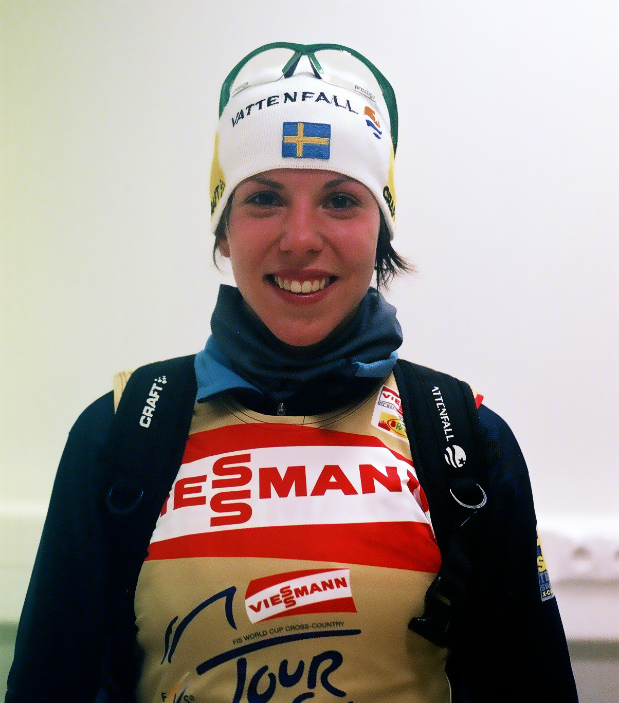 Swedish skier Charlotte Kalla. Picture taken during Tour de Ski 2008.